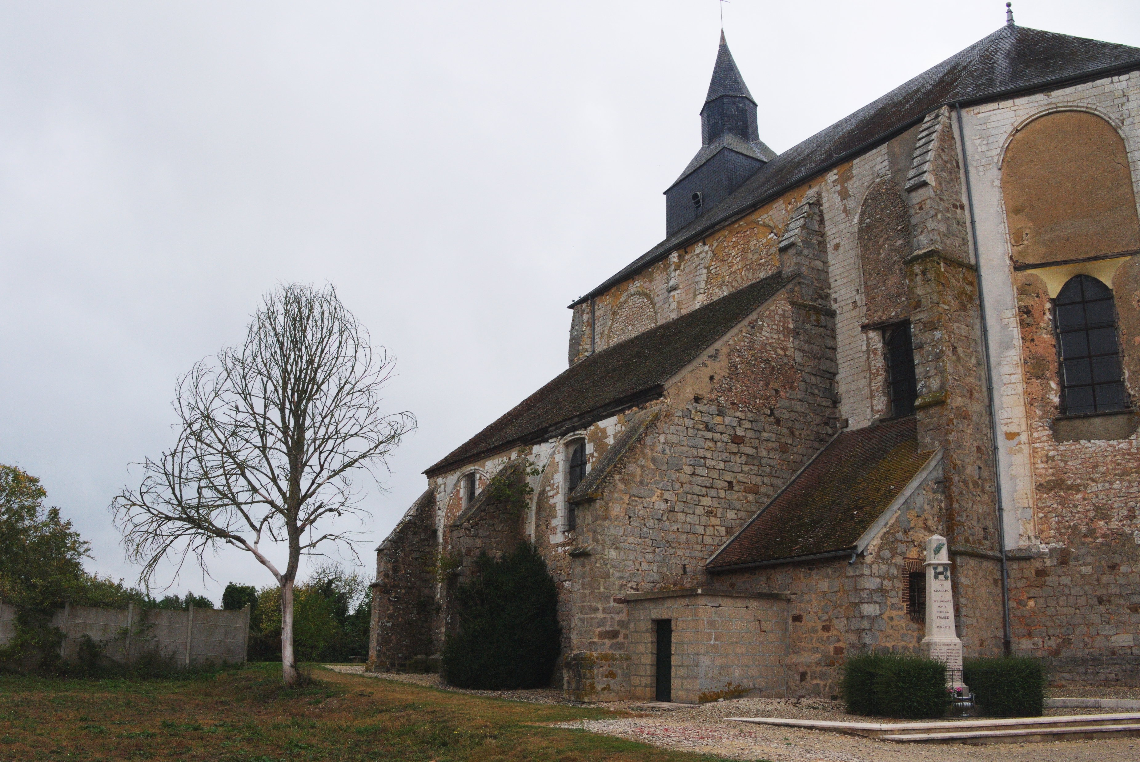 Church of Coulours (Yonne) (flickruser1banaan)